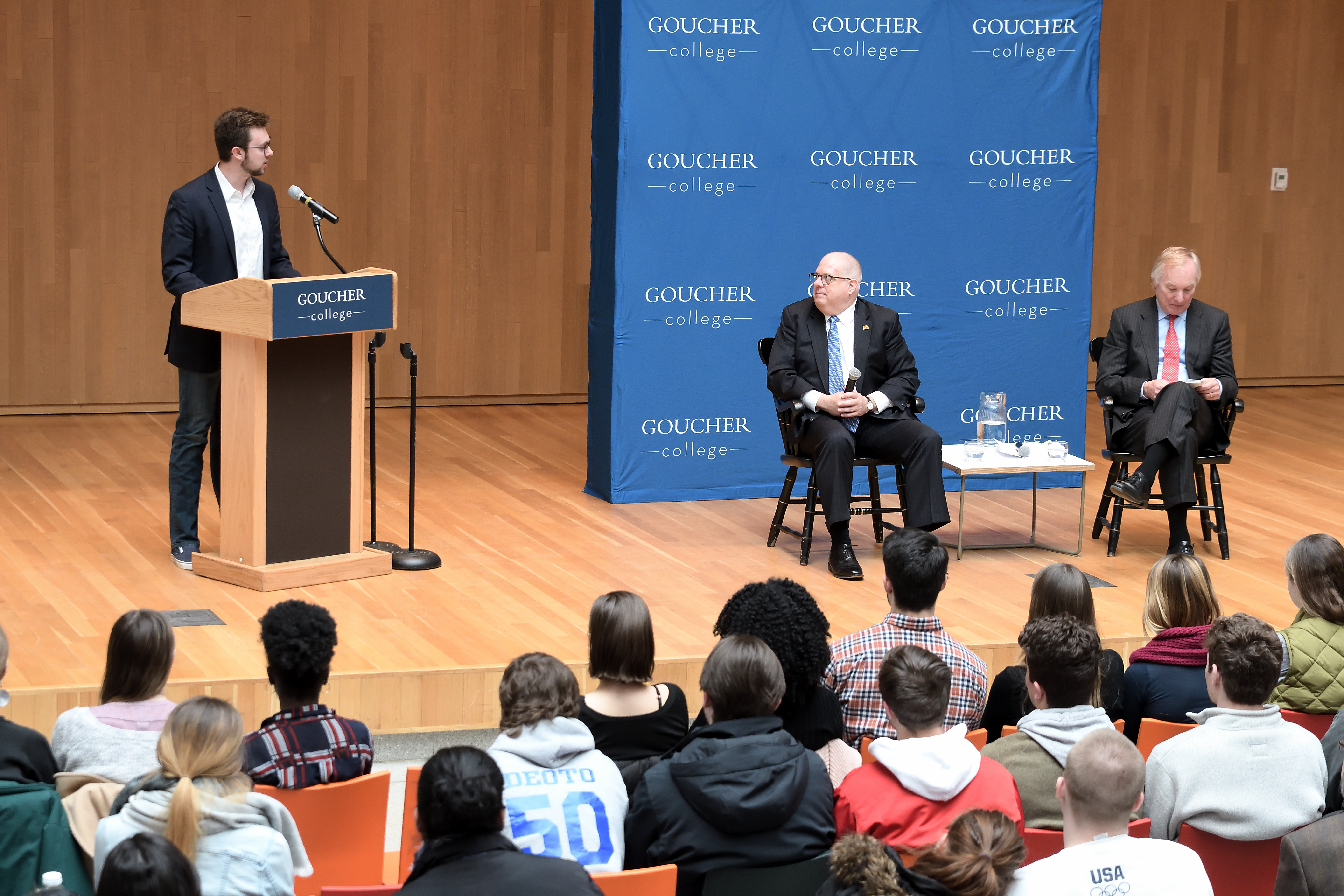 Maryland Governor Larry Hogan And Comptroller Franchot Visit Goucher by Anthony DePanise at Goucher College.